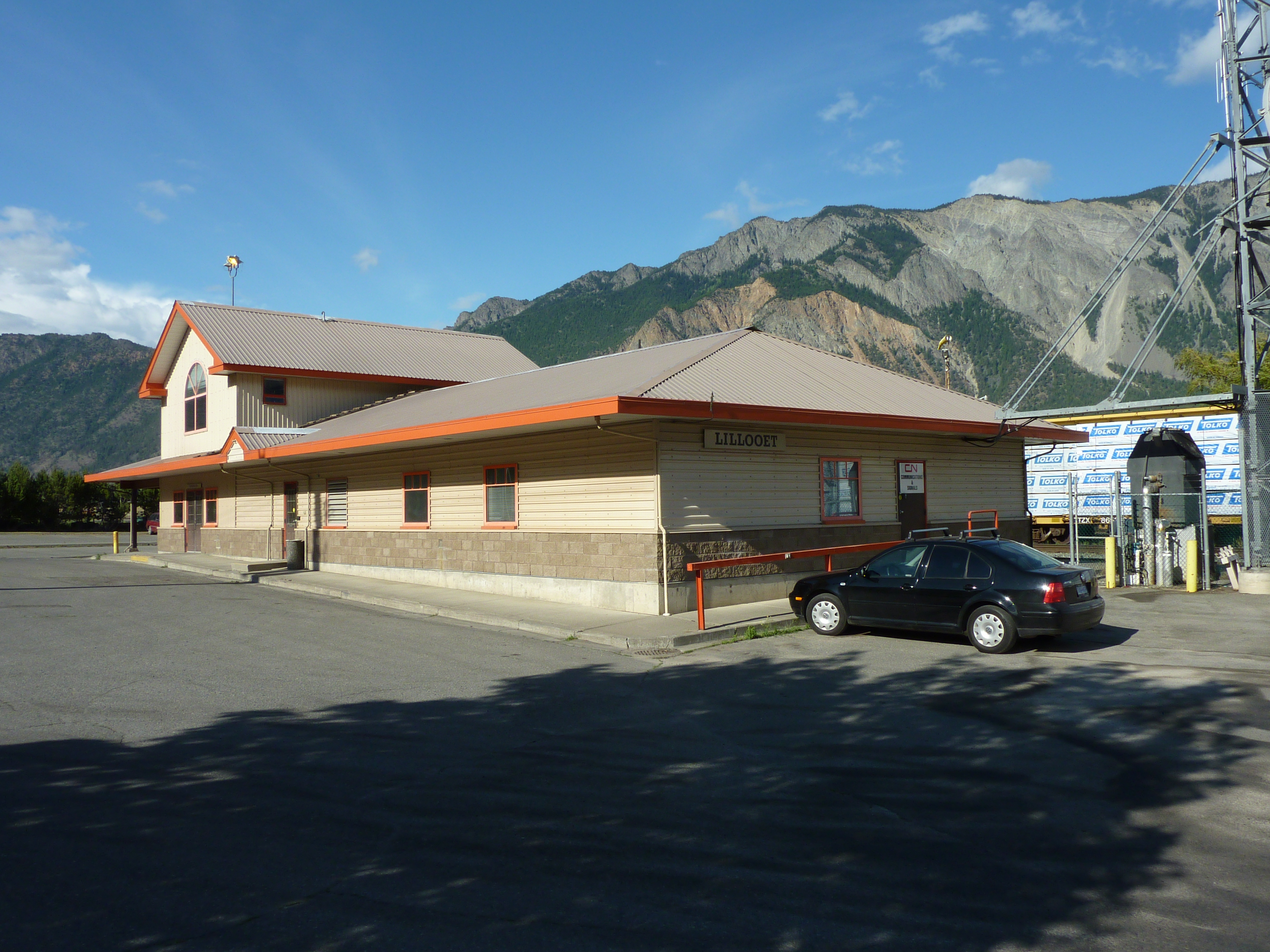 Railway station Lillooet, British Columbia, Canada